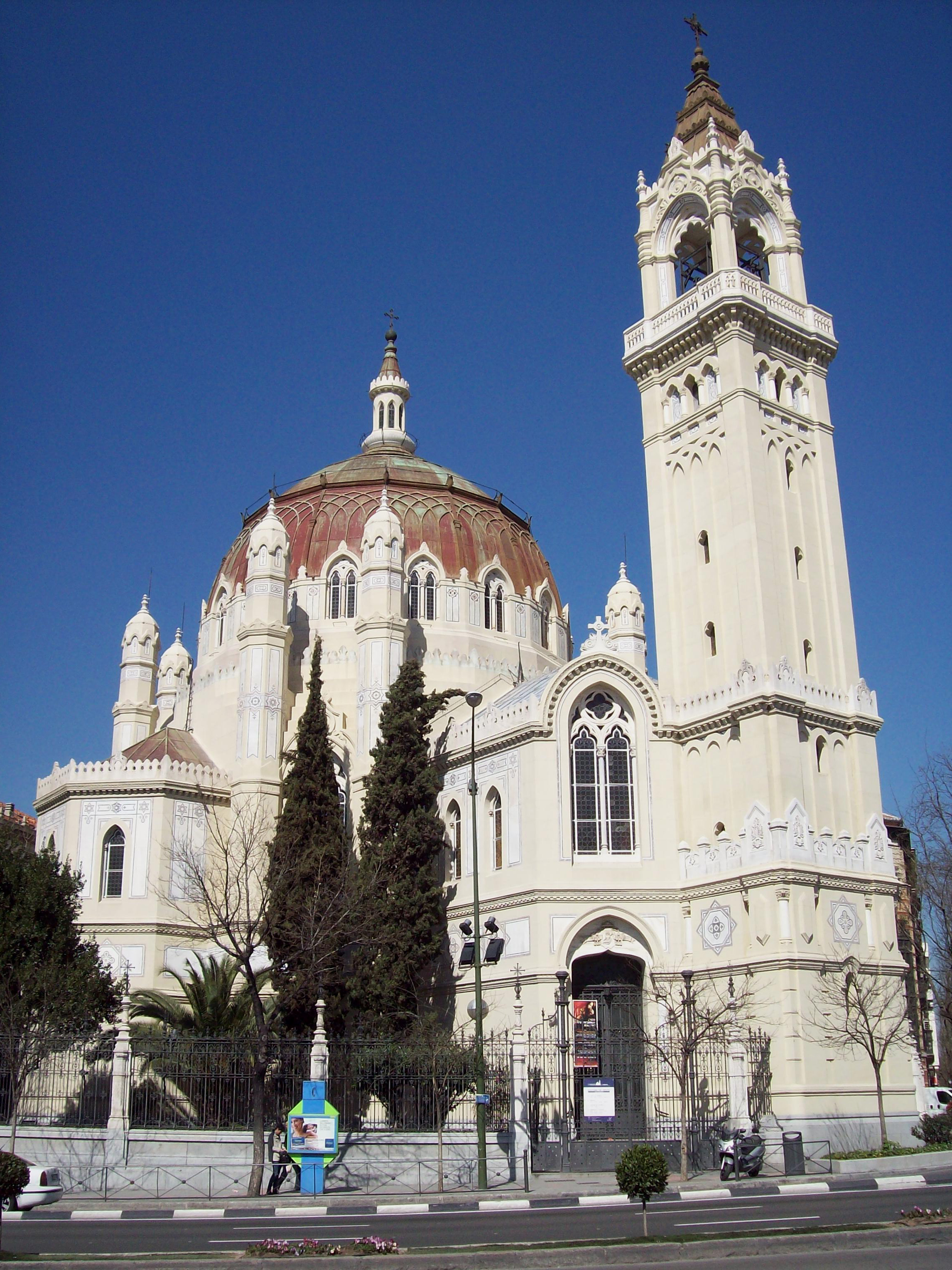 Iglesia de San Manuel y San Benito (church) in Madrid (Spain).